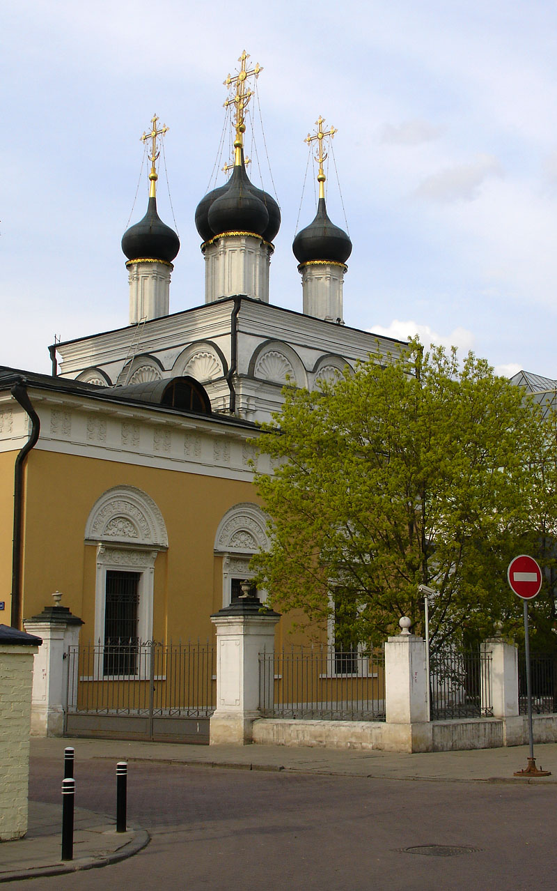 St.Nicholas in Tolmachi, Moscow